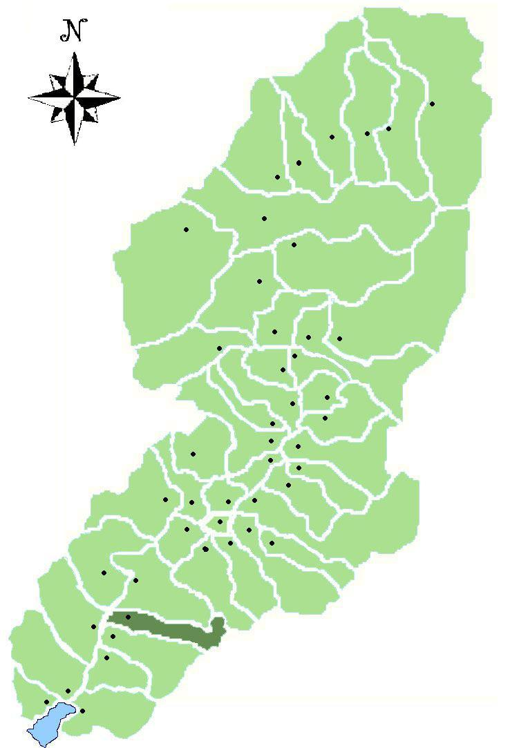 Map of the Comune di Gianico, Valle Camonica